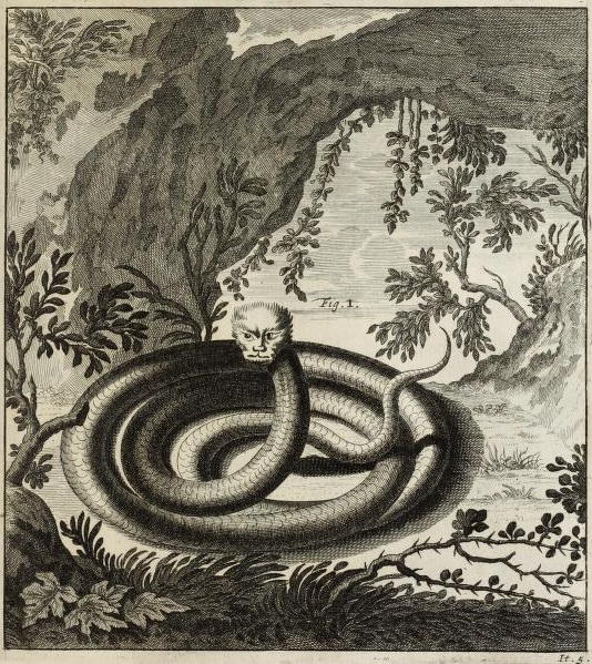 a cat-headed dragon (draco) of the Swiss Alps. Scheuchzer's dragon #1. Aka "cat-headed snake" (George M. Eberhart). Eberhart, Doblhoff, etc., classify it as an instance of a Swiss Stollenwurm (called Tatzelwurm elsewhere).